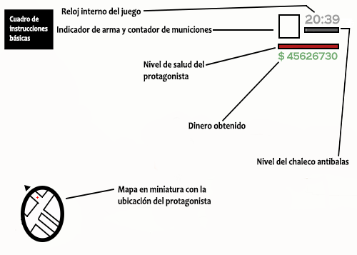 Description in spanish of the HUD from Grand Theft Auto: San Andreas.